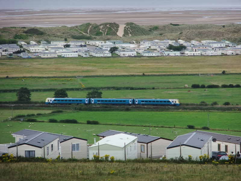 An Arriva Trains Wales train passes Talacre on the North Wales Coast Line.